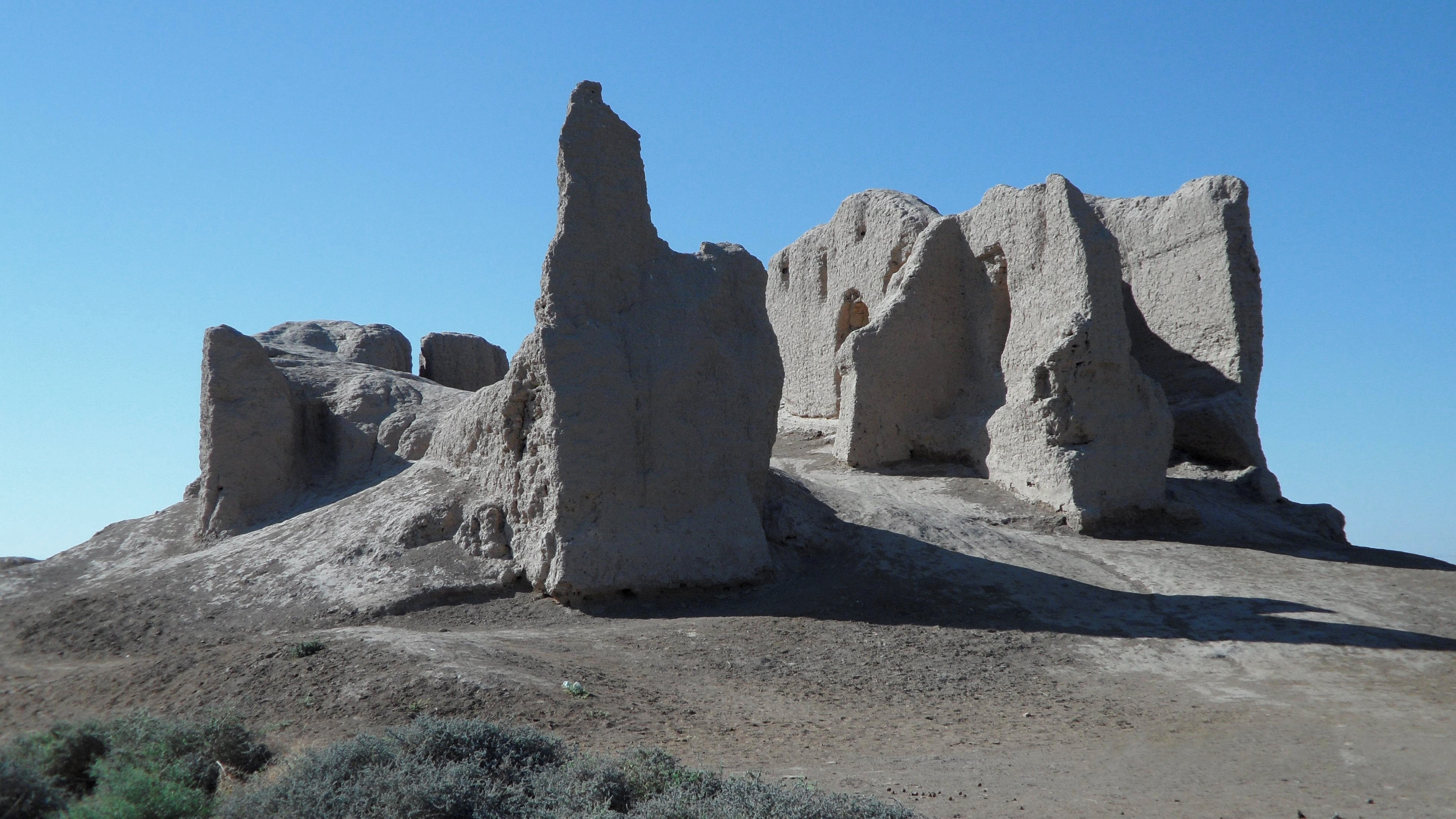 MervTurkmenistan Little Kyz Kala